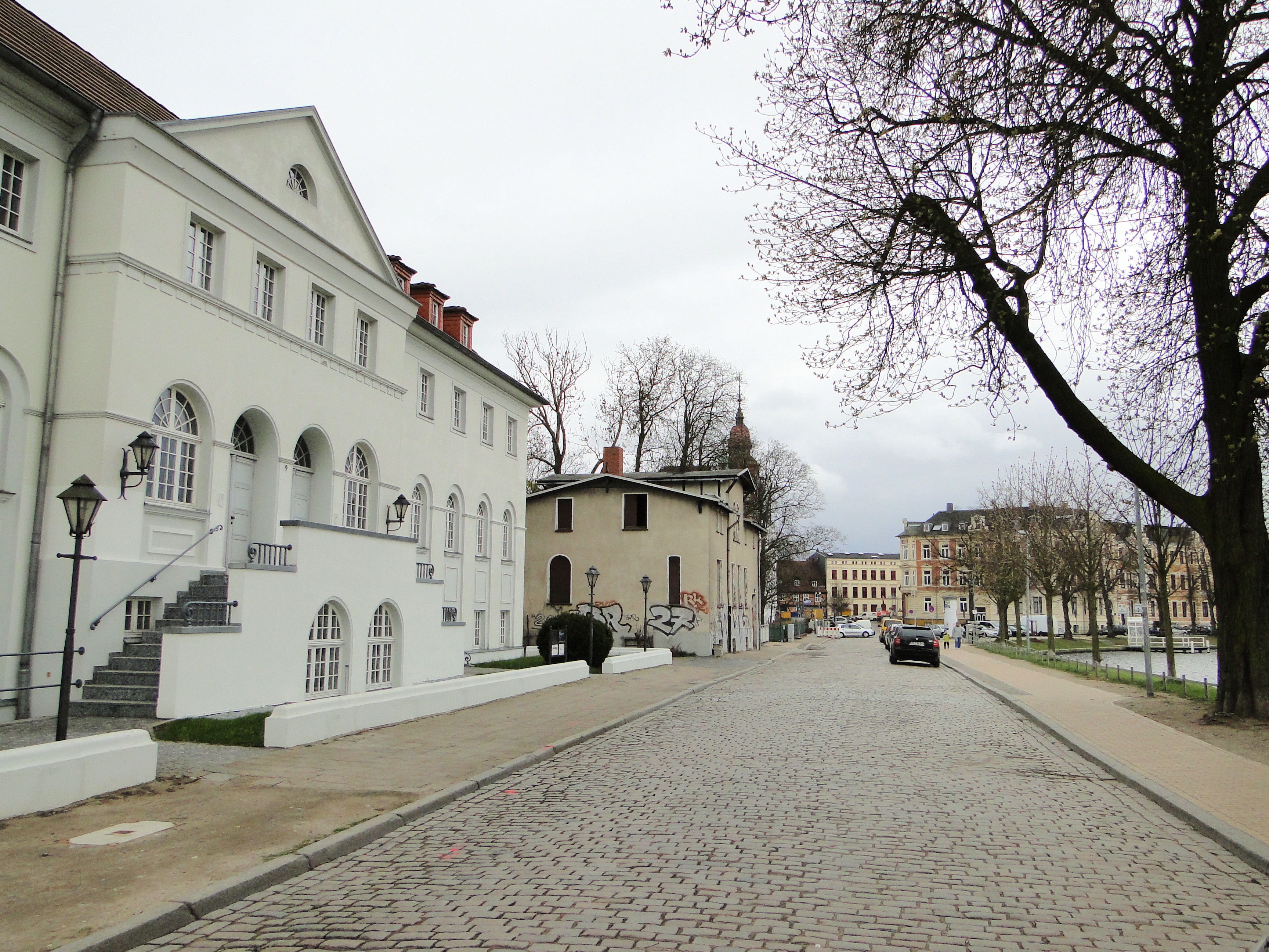 Street Spieltordamm at northern shore of Pfaffenteich in Schwerin, Mecklenburg-Vorpommern, Germany